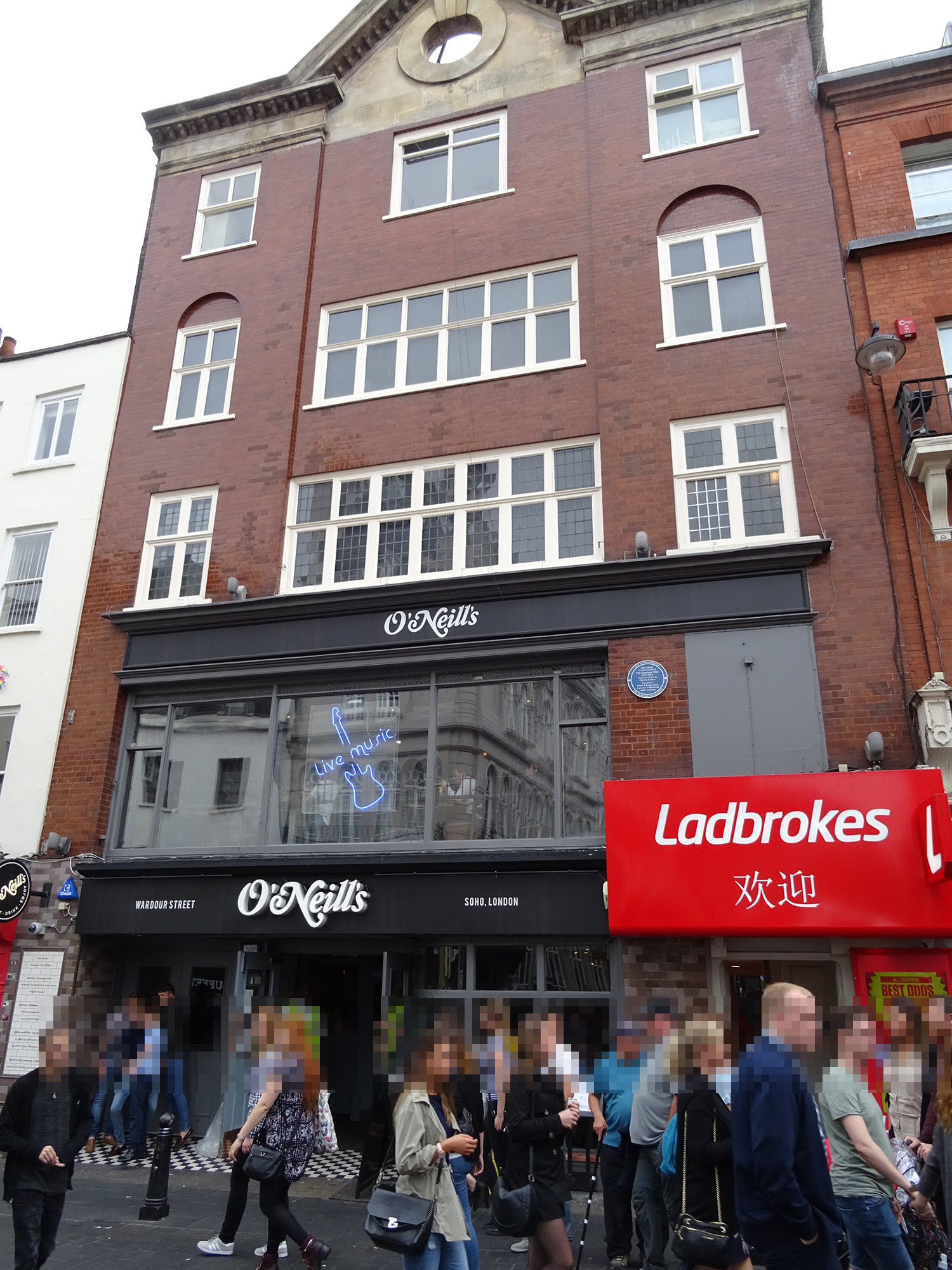 33-37 Wardour Street London W1D 6PU. This building was the location of The Flamingo Club (1957-1967) the home of Jazz & Rhythm & Blues Founded by Jeffrey S.Kruger MBE, A pioneer in the British Music Industry